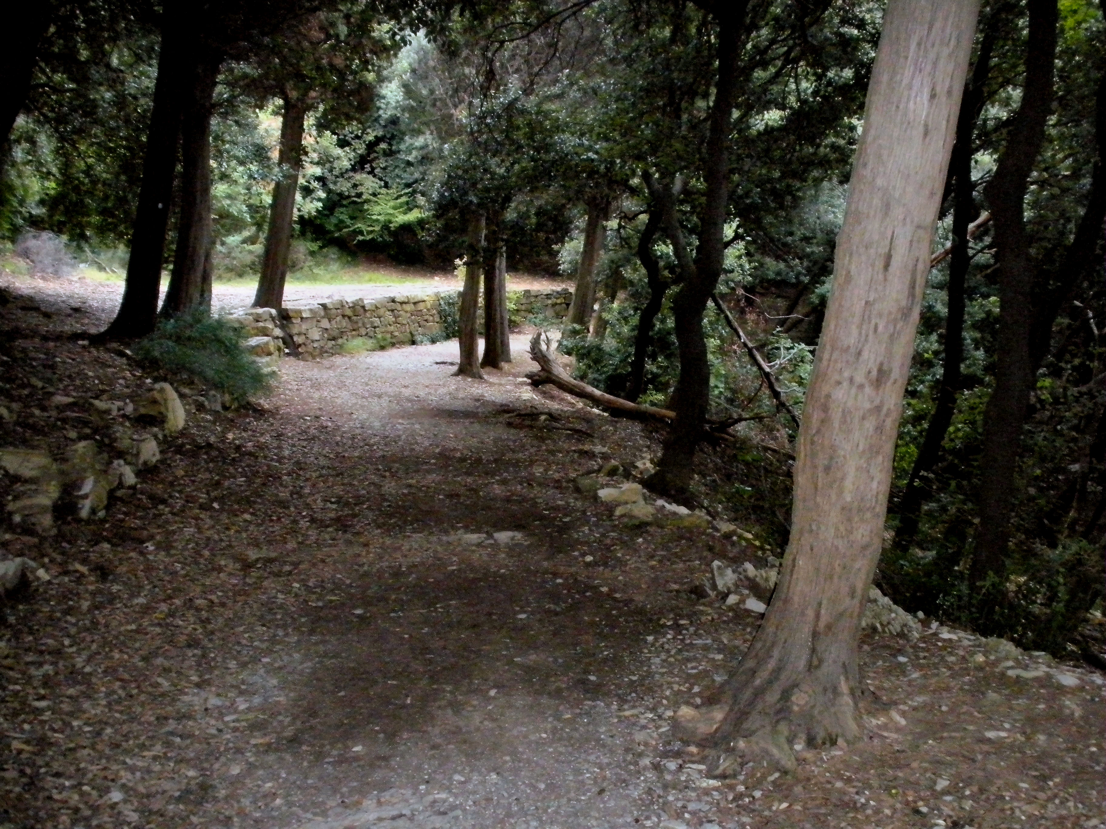 Genoa, Italy, the "Woods of Friars", near the shrine of Nostra Signora del Monte (quarter of San Fruttuoso)